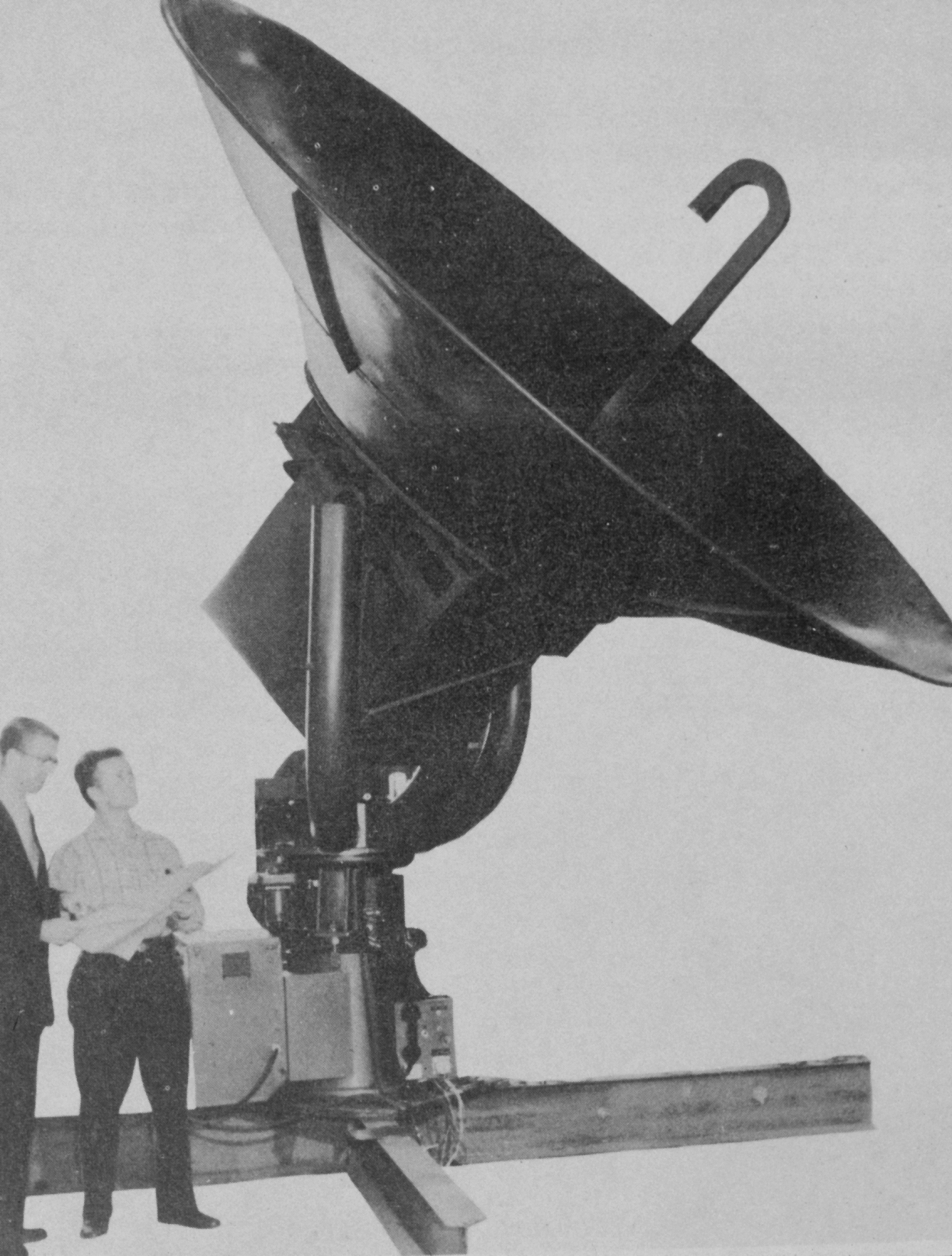 Antenna for new WSR-57 weather radars, the first of which was to be installed in Miami. In: Weather Bureau Topics, February 1958, p. 27.